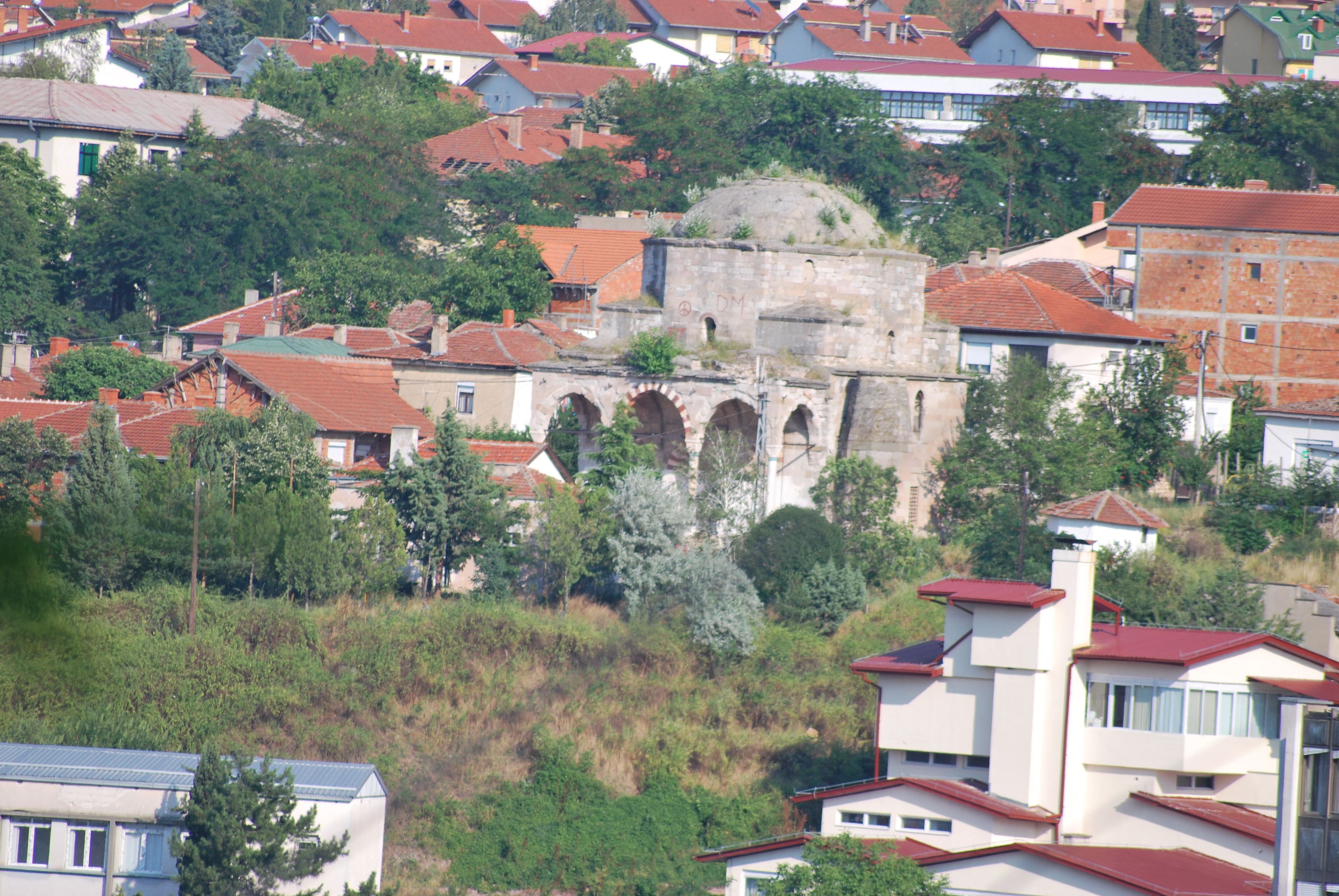 Štip, Macedonia